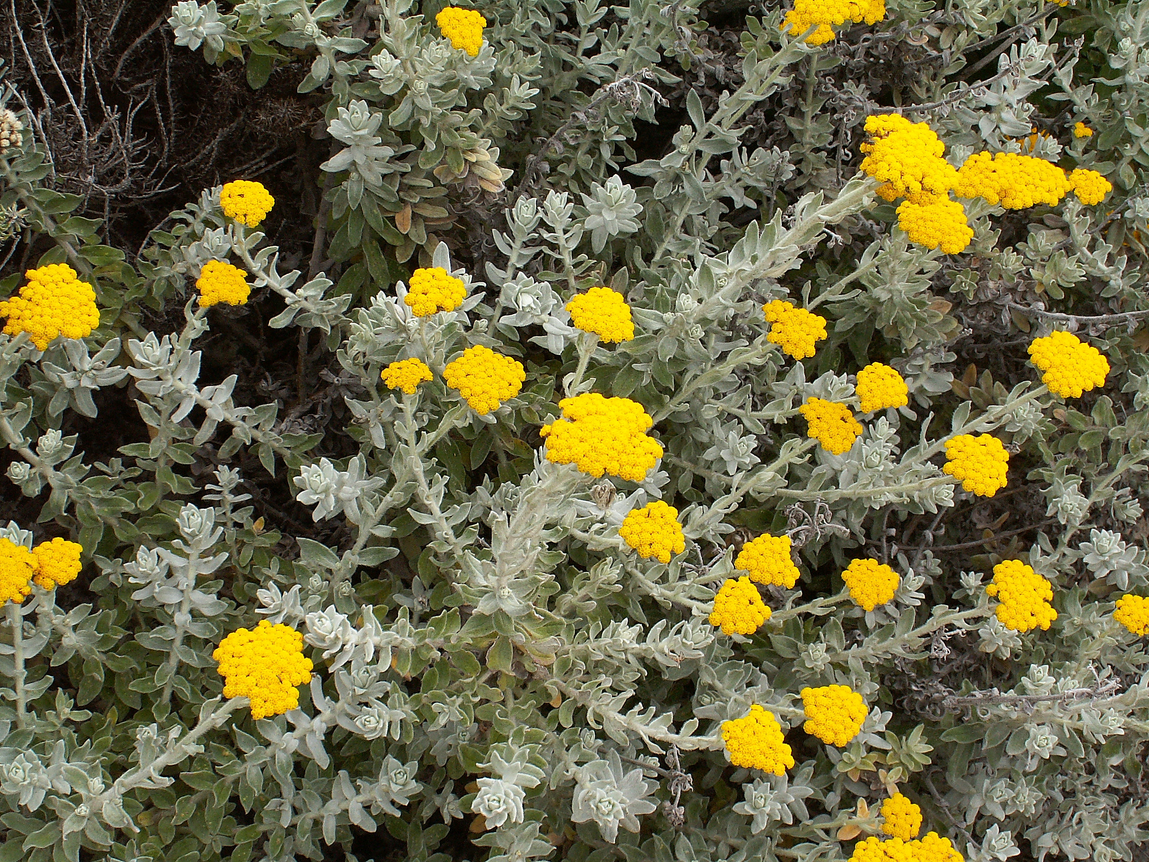 Helichrysum moeserianum Thellung, De Hoop nature reserve, South Africa